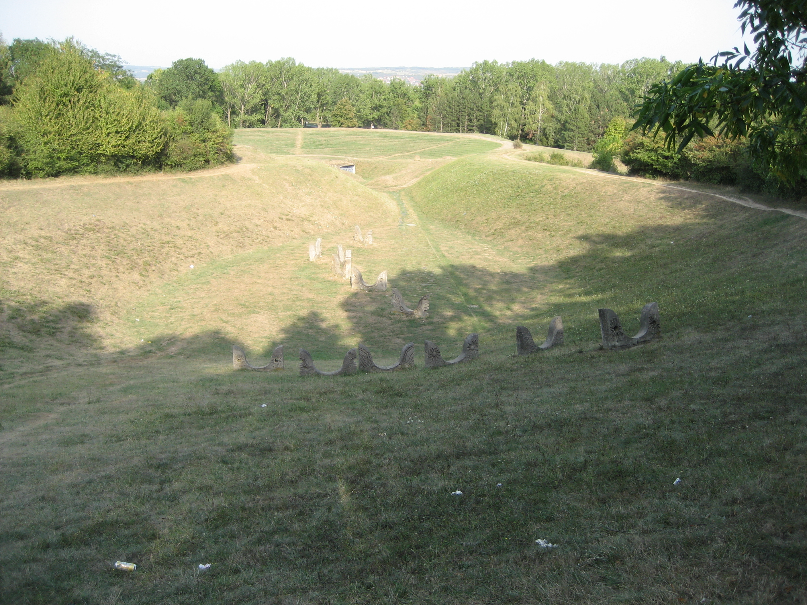 Dolina pošte (post valley), necropolis Slobodište near Kruševac, Serbia